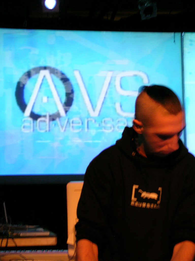 Canadian electronic musician Ad-ver-sary, live at COMA 3.